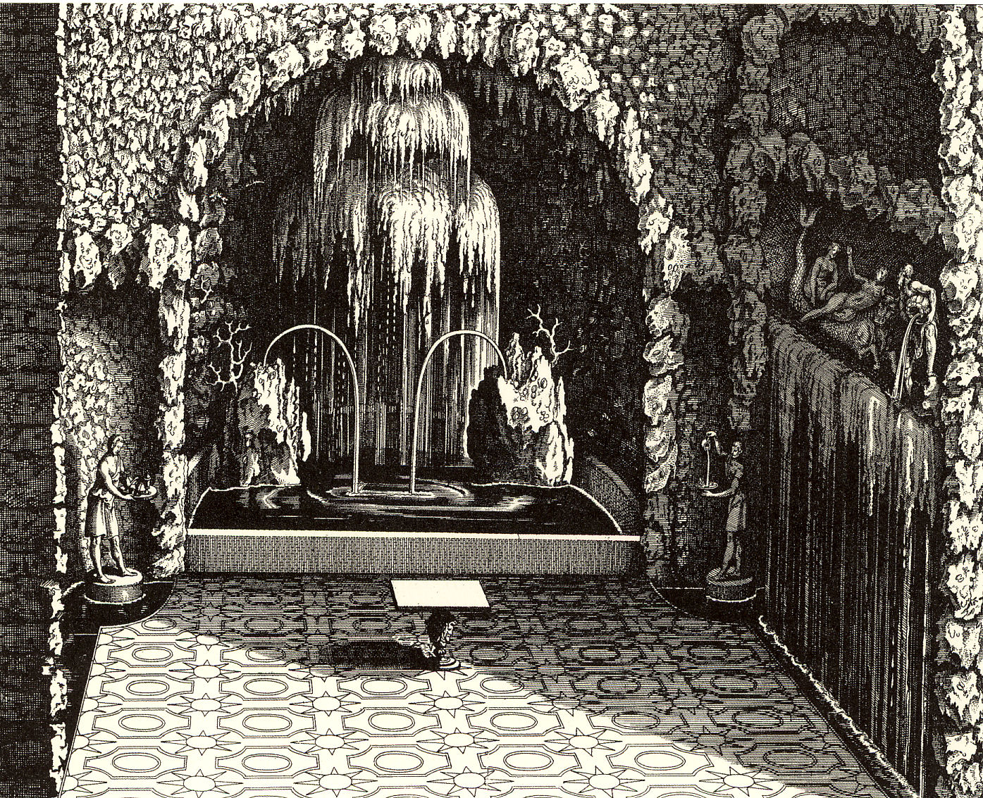 historic view of Heidelberg castle gardens by Salomon de Caus